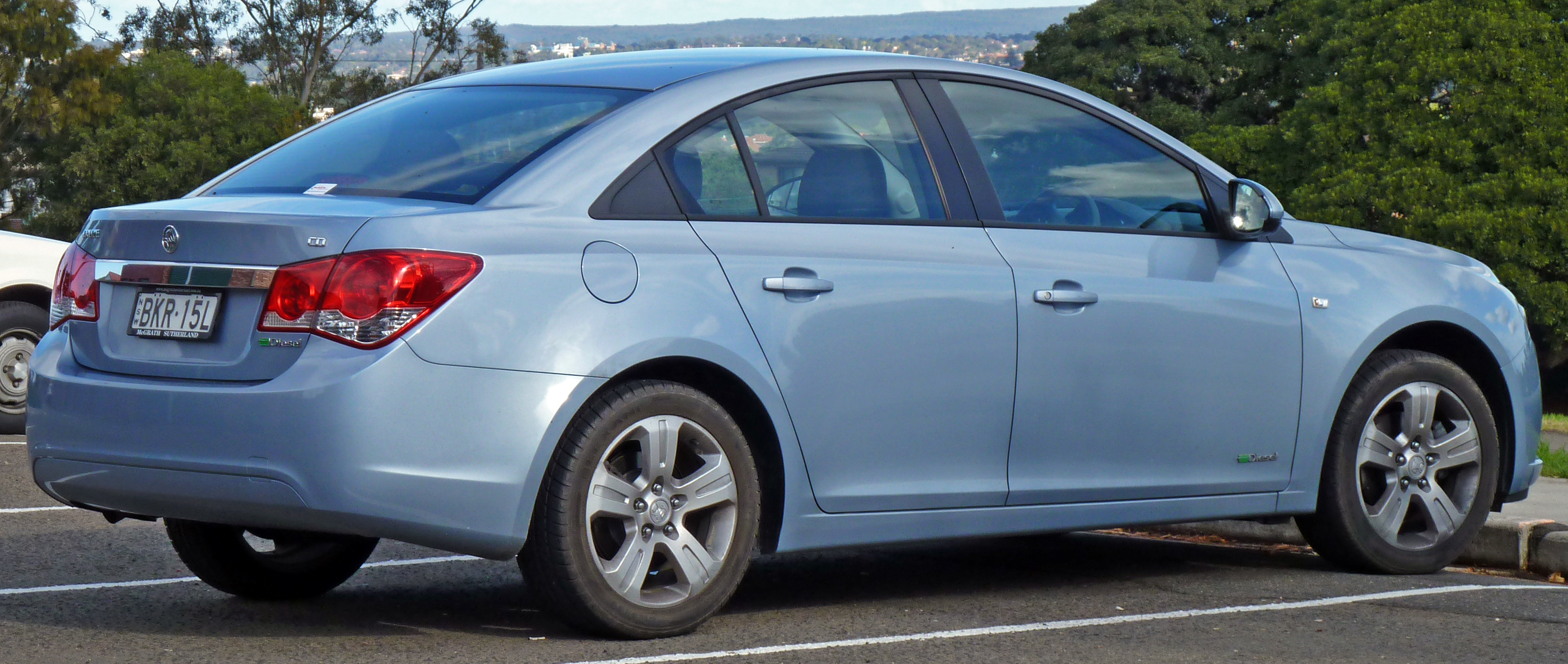 2009 Holden Cruze (JG) CD sedan. Photographed in Hurstville, New South Wales, Australia.